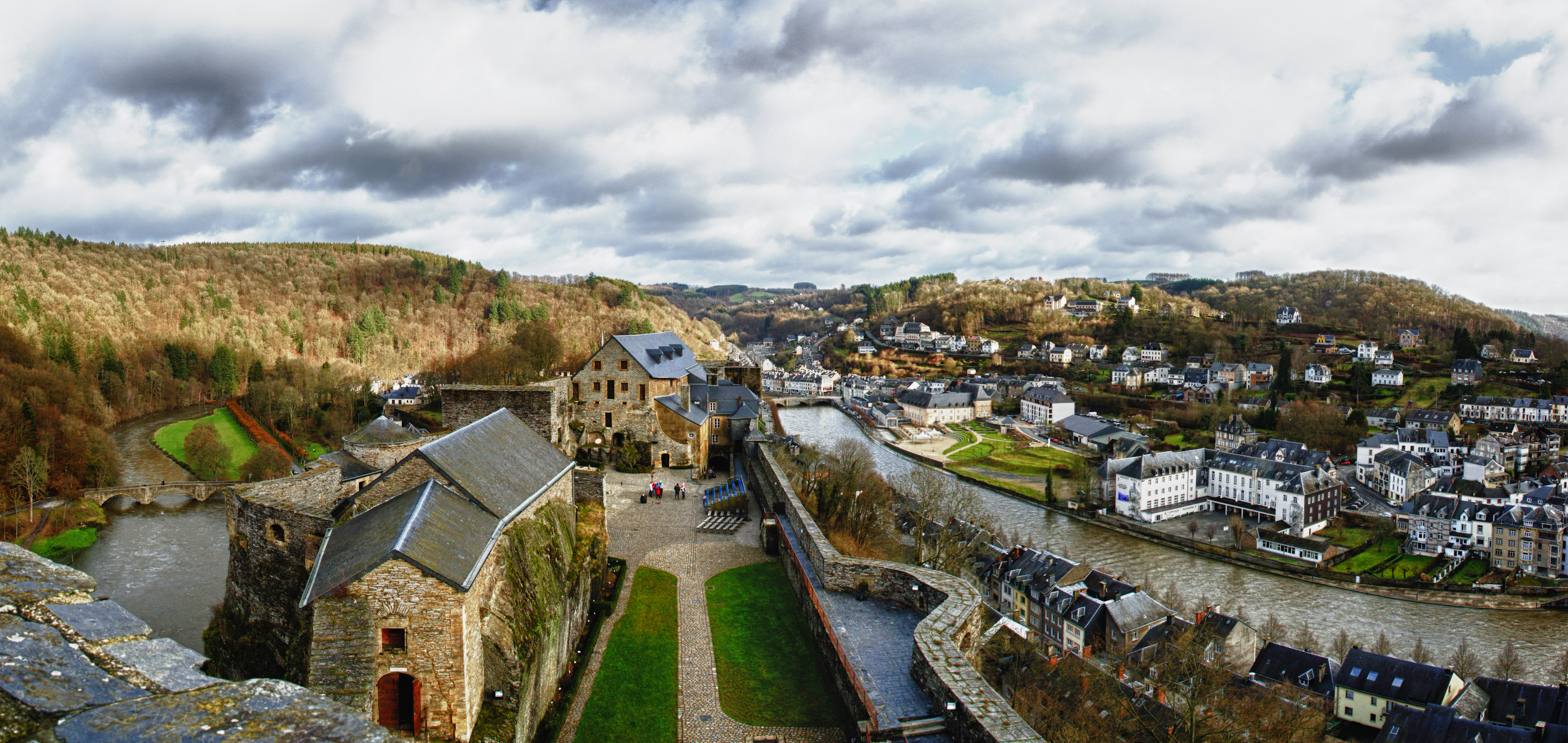 Panorama of Bouillon, Belgium.